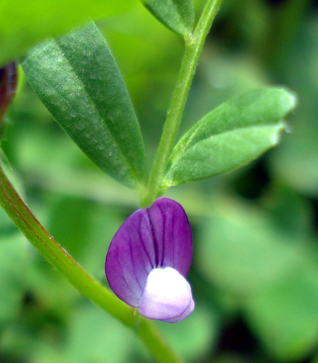 Vicia lathyroides, Unterfranken (Germany)